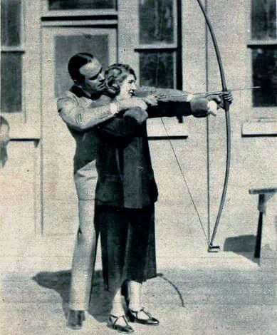 Douglas Fairbanks showing Mary Pickford how to shoot an arrow, from an article about the American film Robin Hood (1922), on page 24 of the July 1, 1922 Movie Weekly. Pickford did not have a role in the film, but was part of United Artists, the production company for the film.